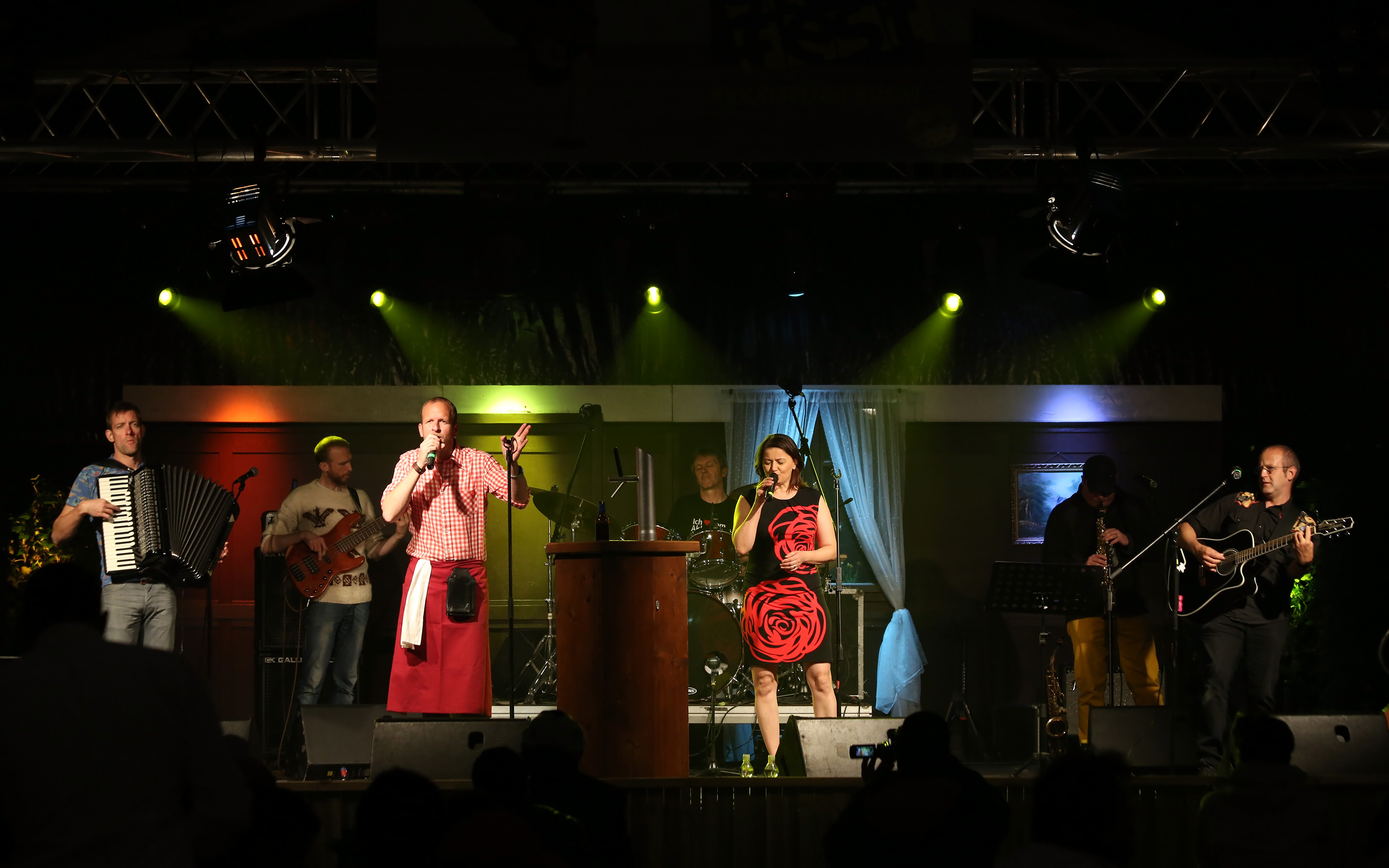 remasuri, concert on Heldenplatz during Wiener Stadtfest (Vienna City Festival) 2014 (Vienna, Austria).